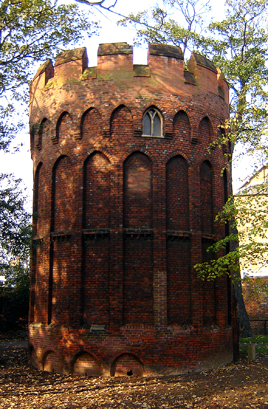 This enigmatic structure is not Bruce Castle itself, which is a manorial piece of architecture. It is in the grounds and has its own Grade I listing separate from that of the manor house. This tower is something of a folly - and not a Victorian one, it dates from the 16th century. To quote Nickolaus Pevsner: "A great puzzle. [...] probably of early C16 date and of no known purpose. Its origins were already obscure by c. 1700, when Lord Coleraine wrote that 'in respect of its great antiquity more than conveniency, I keep the old brick tower in good repair, although I am not able to discover the founder thereof.'" And we continue that tradition...